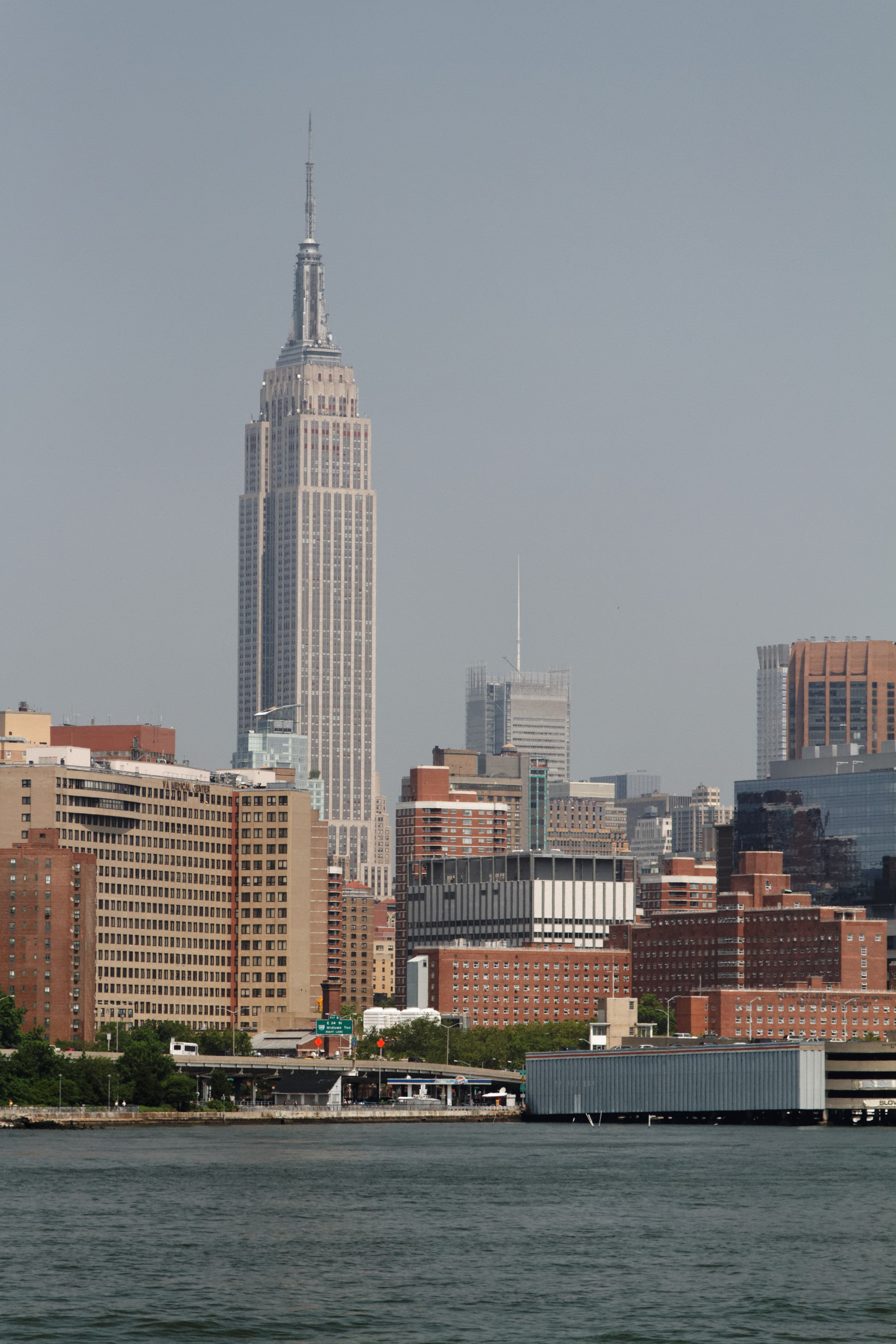 Manhattan Circle Cruise